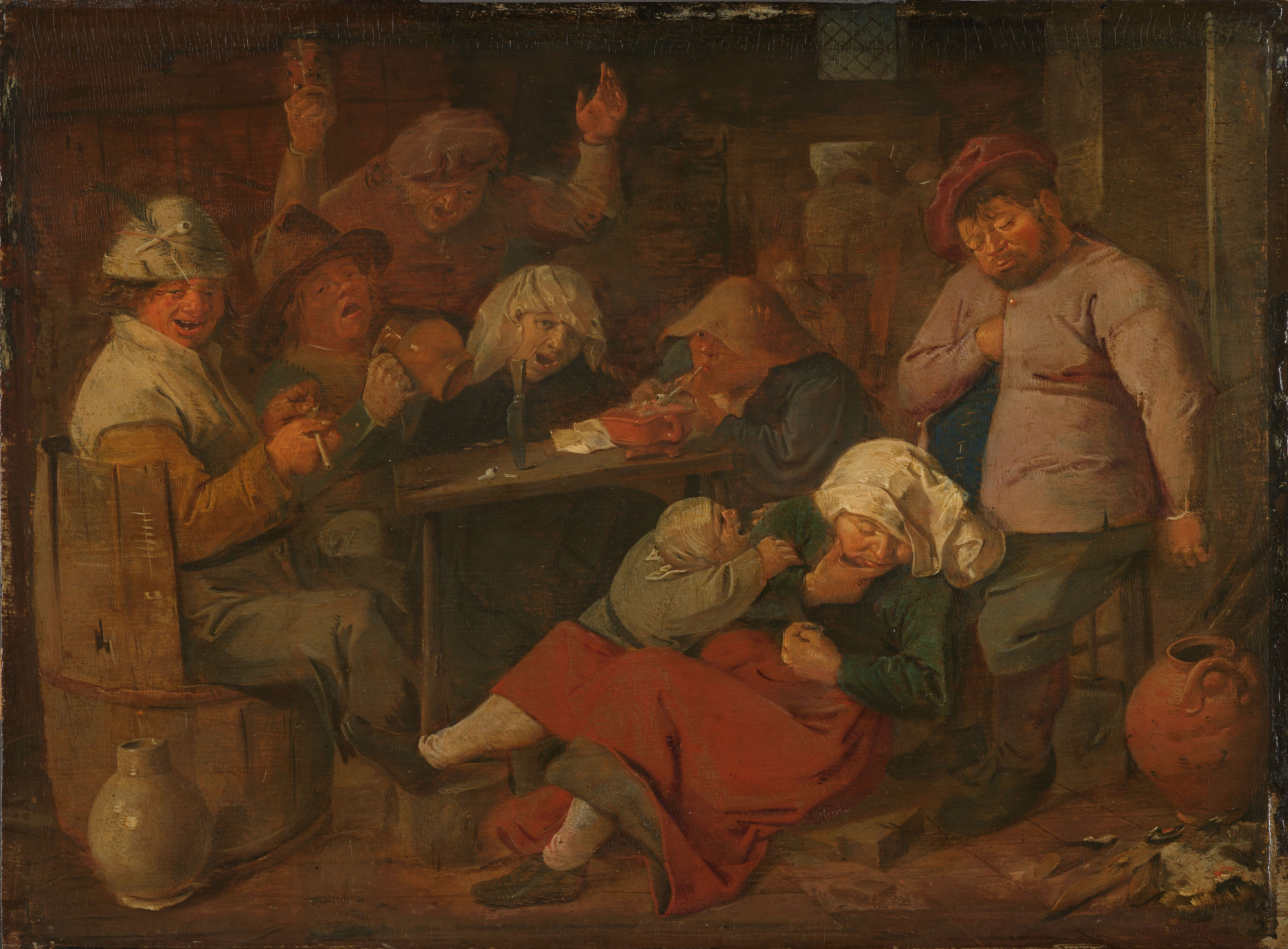 Interior of an inn with a group of drinking, smoking and singing peasants around a table. In front of the table a drunken peasant woman fell asleep. A crying child pulls her arm. To the left a peasant sitting on a barrel is making his pipe. To the right another peasant is lighting his pipe using a fire pot.